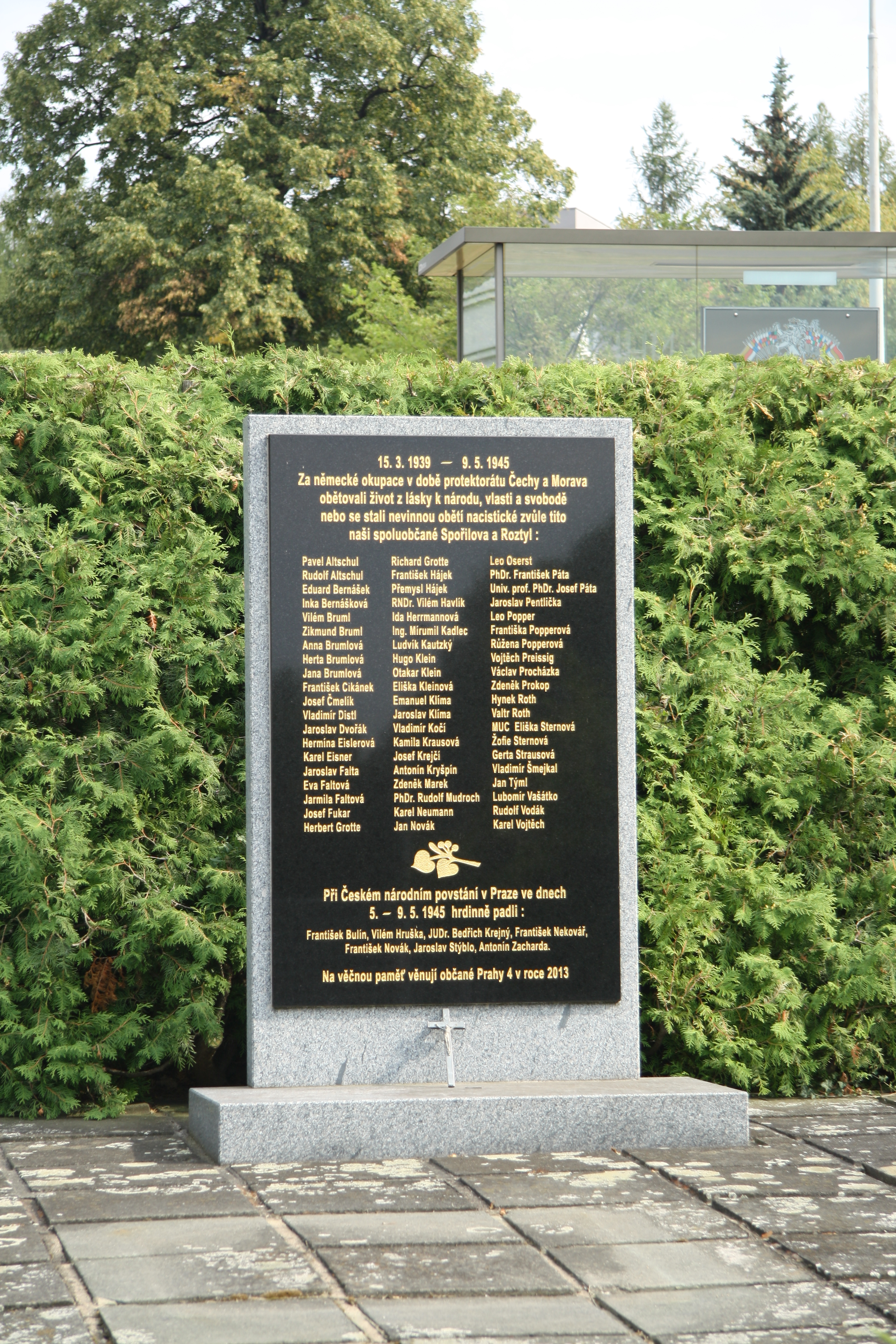 Detail of World War II memorial at Roztylské square in Prague-Záběhlice, Prague.